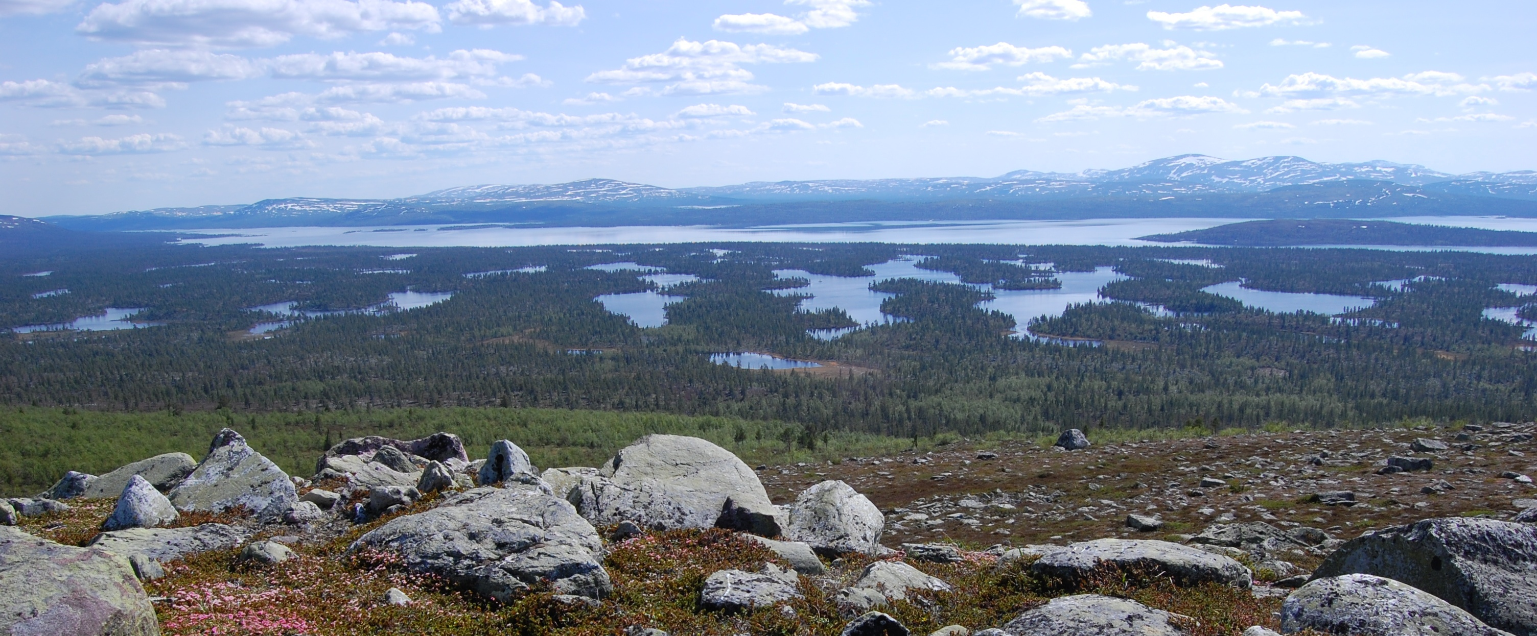 Lake Rogen, Sweden as seen from the north. Note the forested ridges in the lake, these are glacial landforms, the so-called 'Rogen moraines' of which this is the type location.